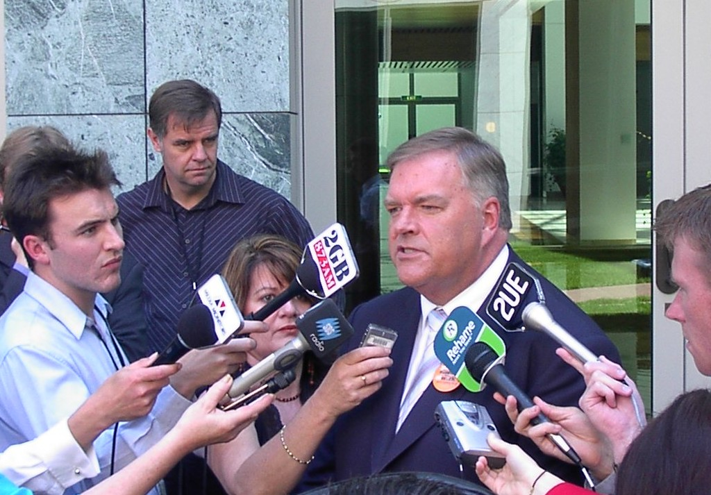 Opposition Leader Kim Beazley says that Labor will oppose the Howard Government's industrial relations legislation "in every respect, at every stage" until the next election, Parliament House Canberra, 2 November 2005. Photo by User:Adam Carr, 2 November 2005